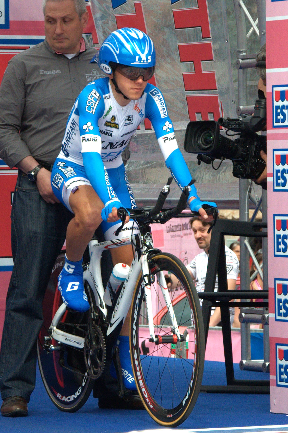 Domenico Pozzovivo before the start of last start of Giro d'Italia 2012 in Milan